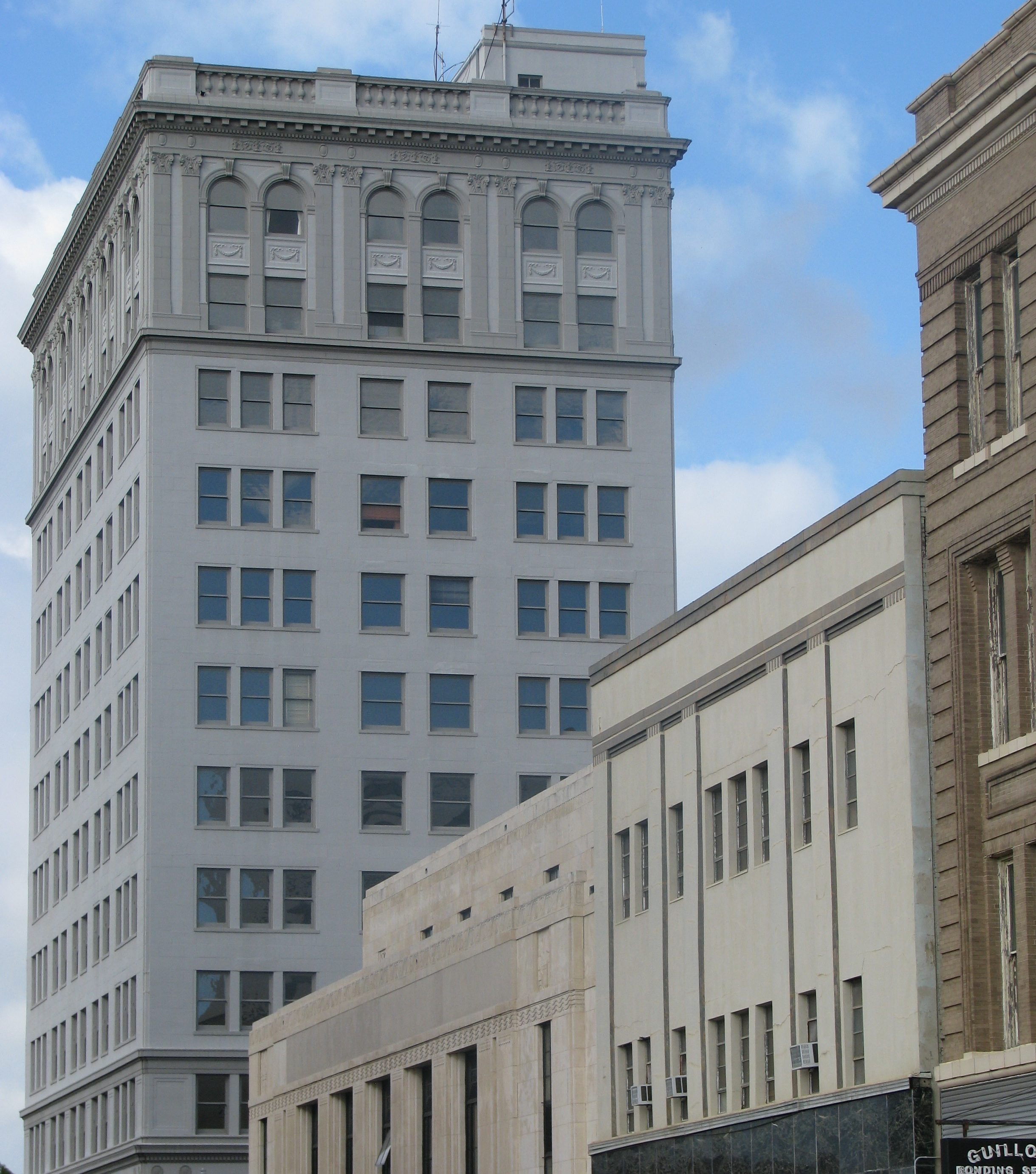 Looking toward the Orleans Building from the corner of Bowie and Pearl.